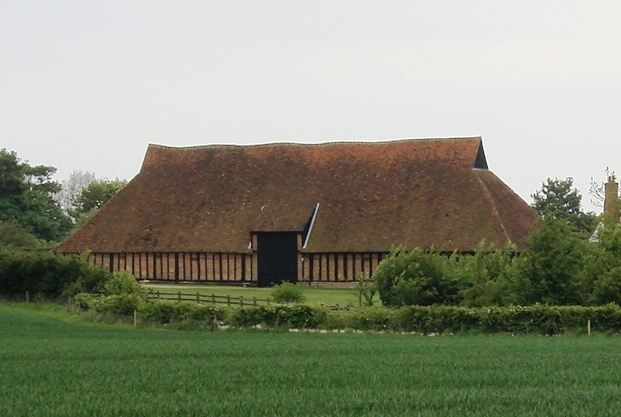 The Wheat Barn, 35 Metres North East of Cressing Temple Farmhouse